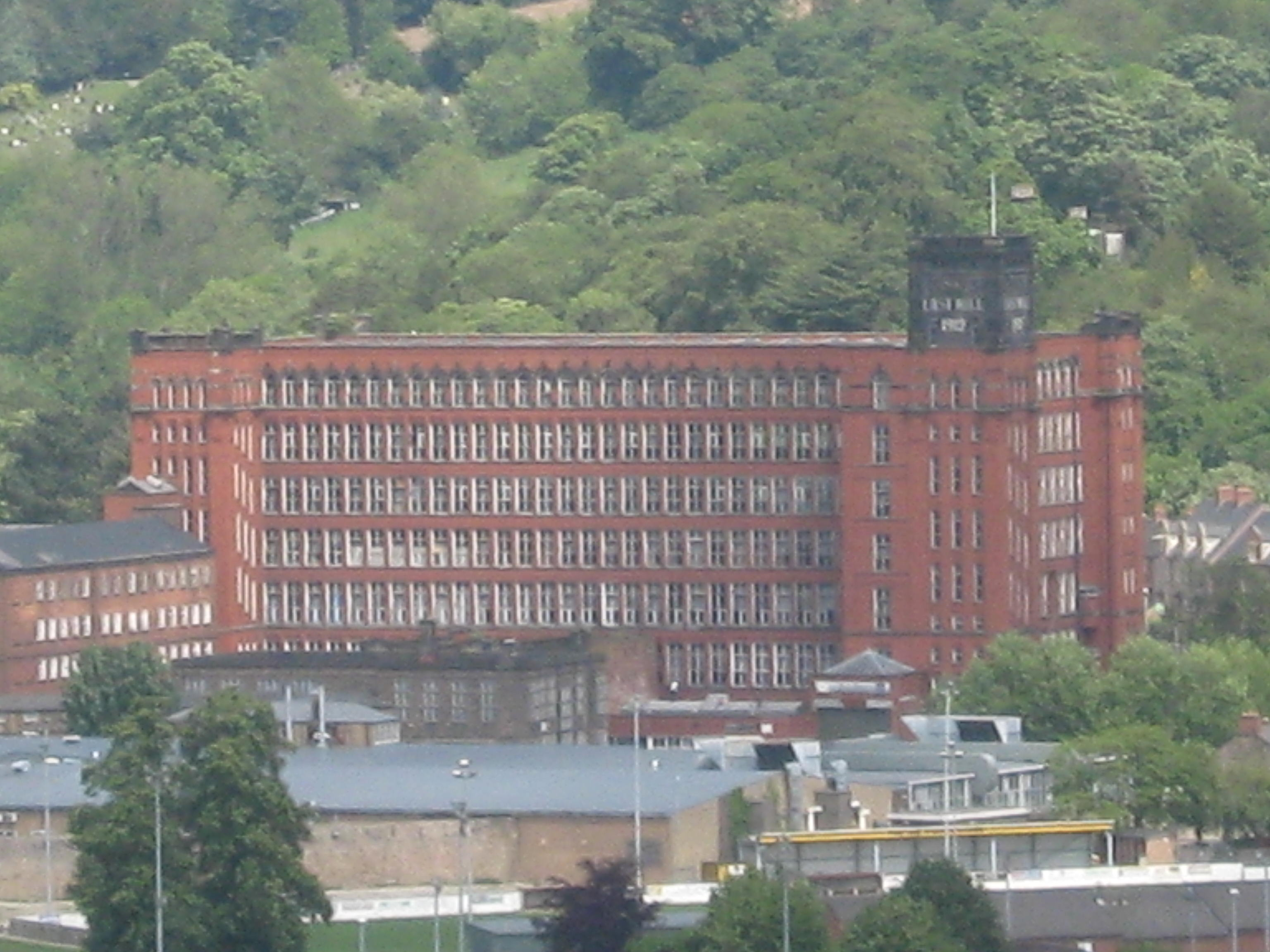 Example of a mill in "mill towns", aka factory towns usually with textile manufacturing